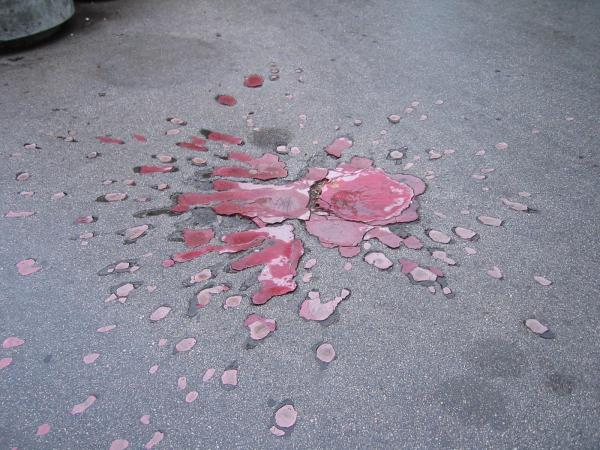 A red resin filled mortar explosion site in the city of Sarajevo commonly known as a Sarajevo Rose.